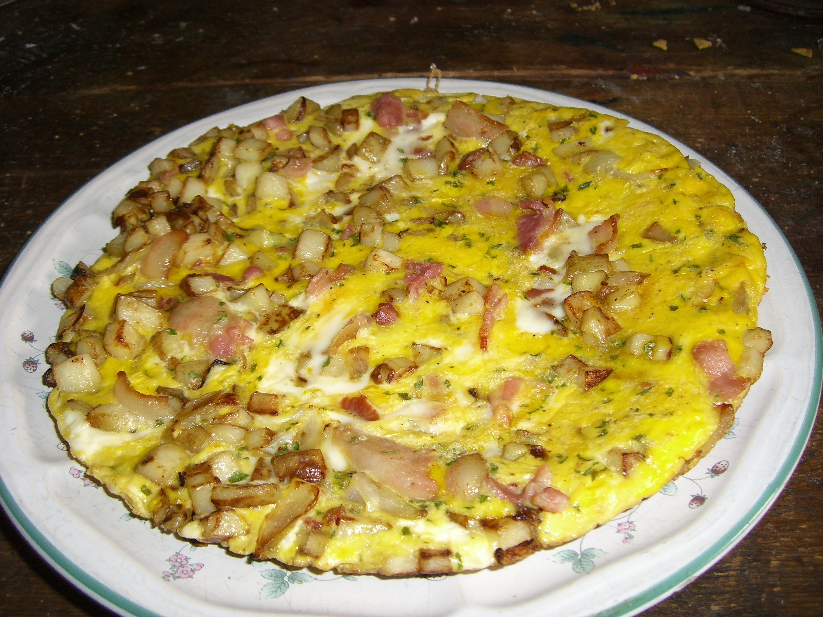 Frittata I made and ate. Eggs, potato, bacon, onion and parsley. Photo taken by User:Edward 9th April 2006 using a Casio EX-S600.